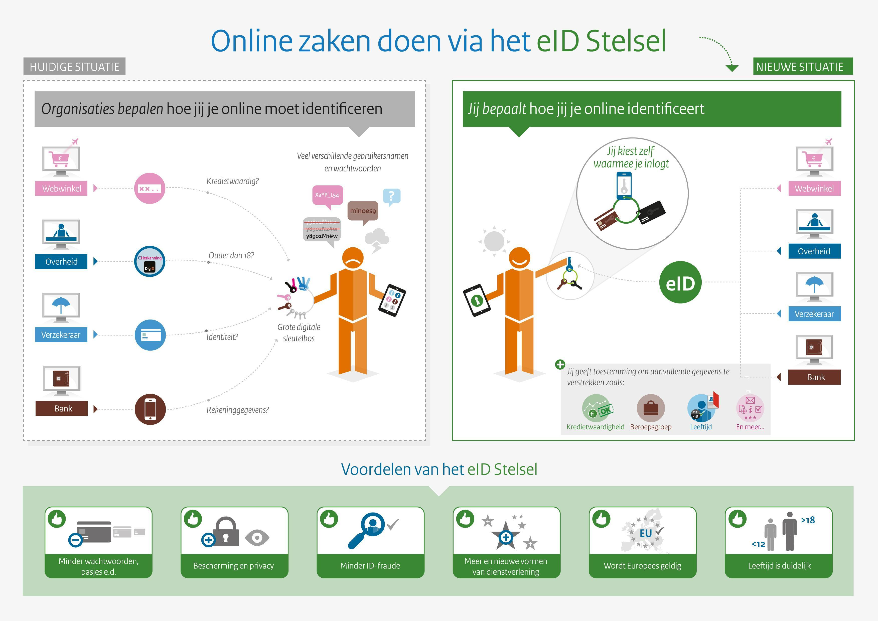 eID Stelsel: 'The eID Scheme enables people and organisations to conduct business online with the government and the business world, using one or more login sources.'